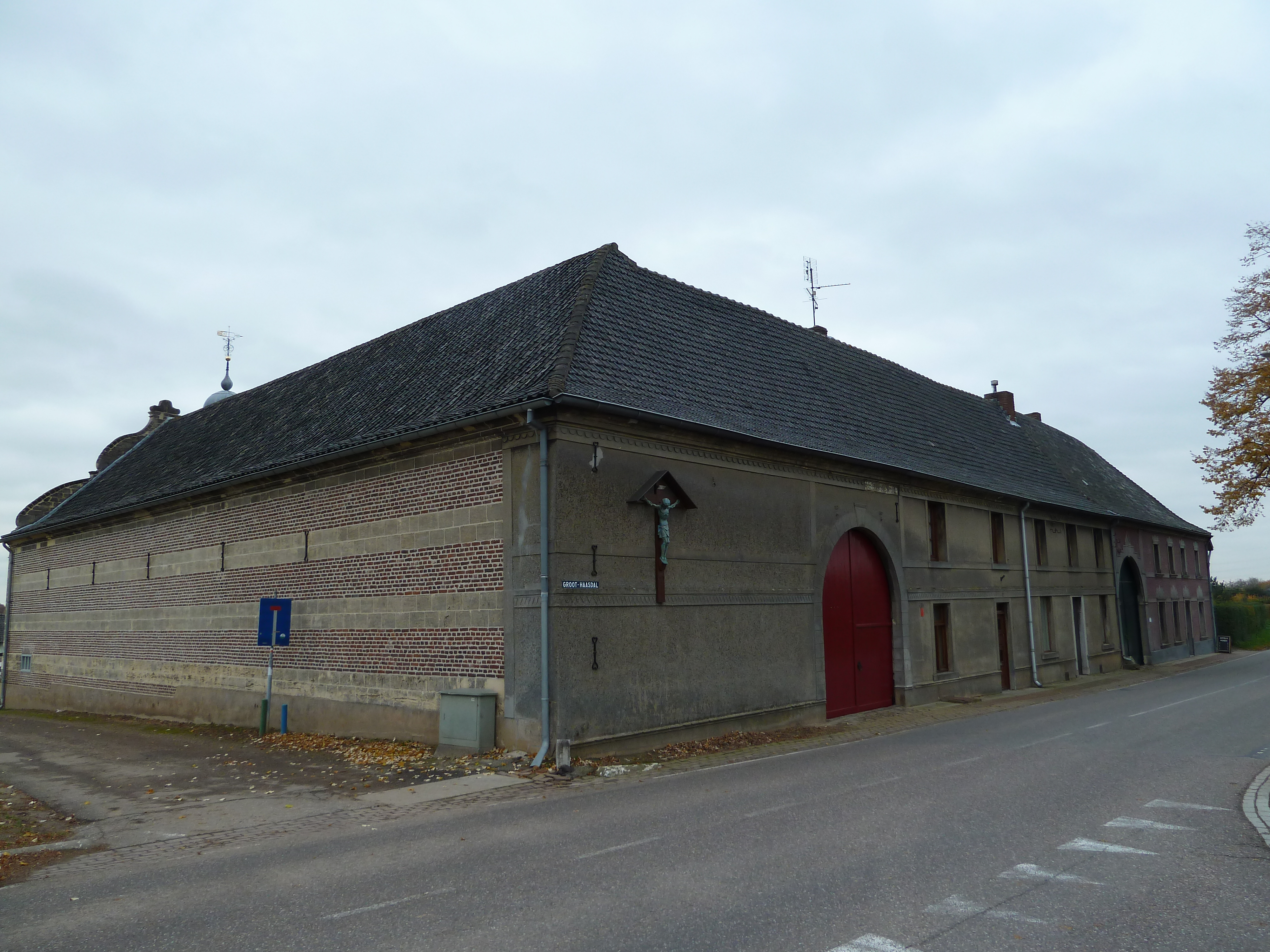 Groot Haasdal 1-3-5, Schimmert, Limburg, the Netherlands